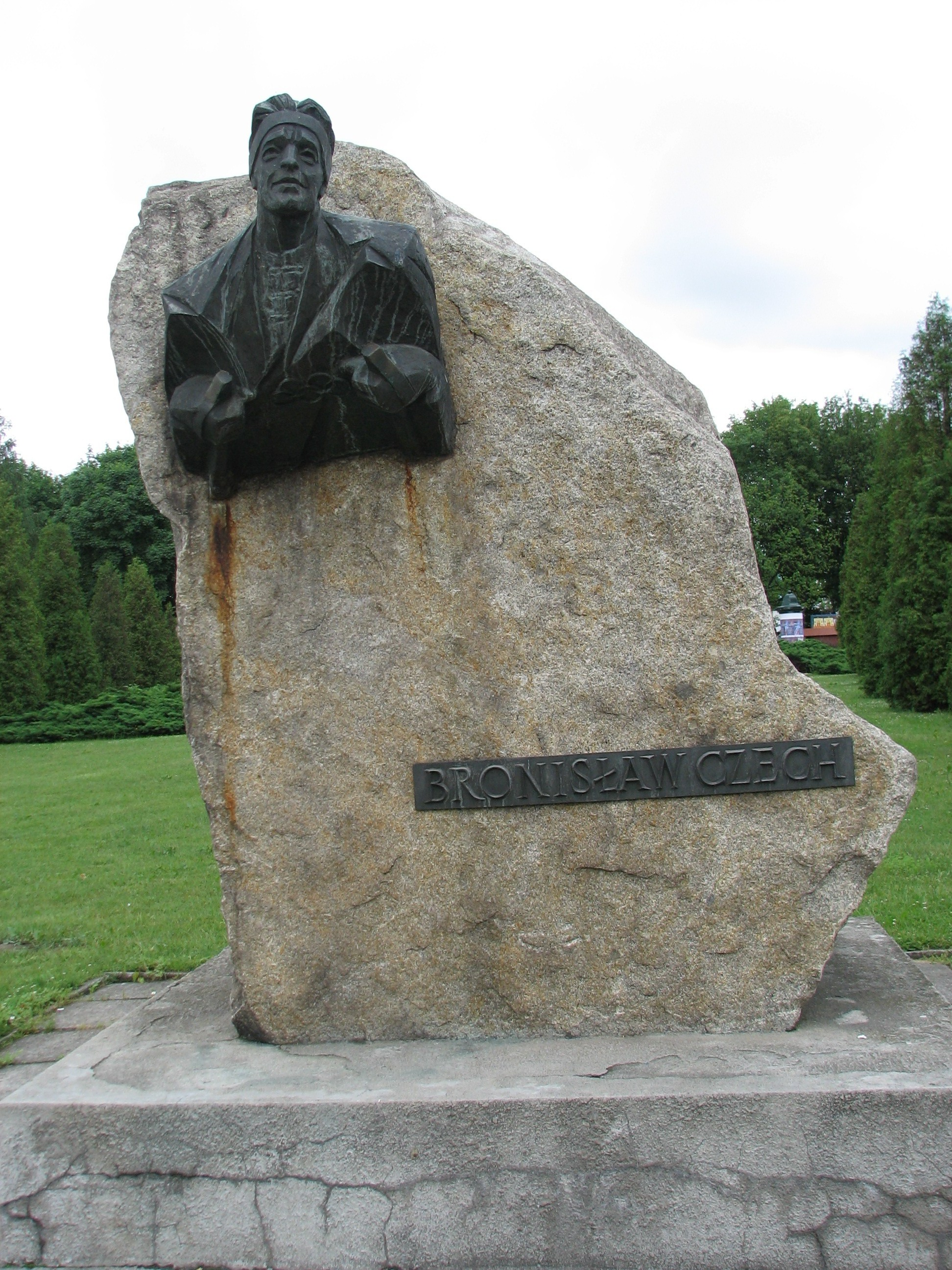 Bronisław Czech`s bust near AWF in Cracow